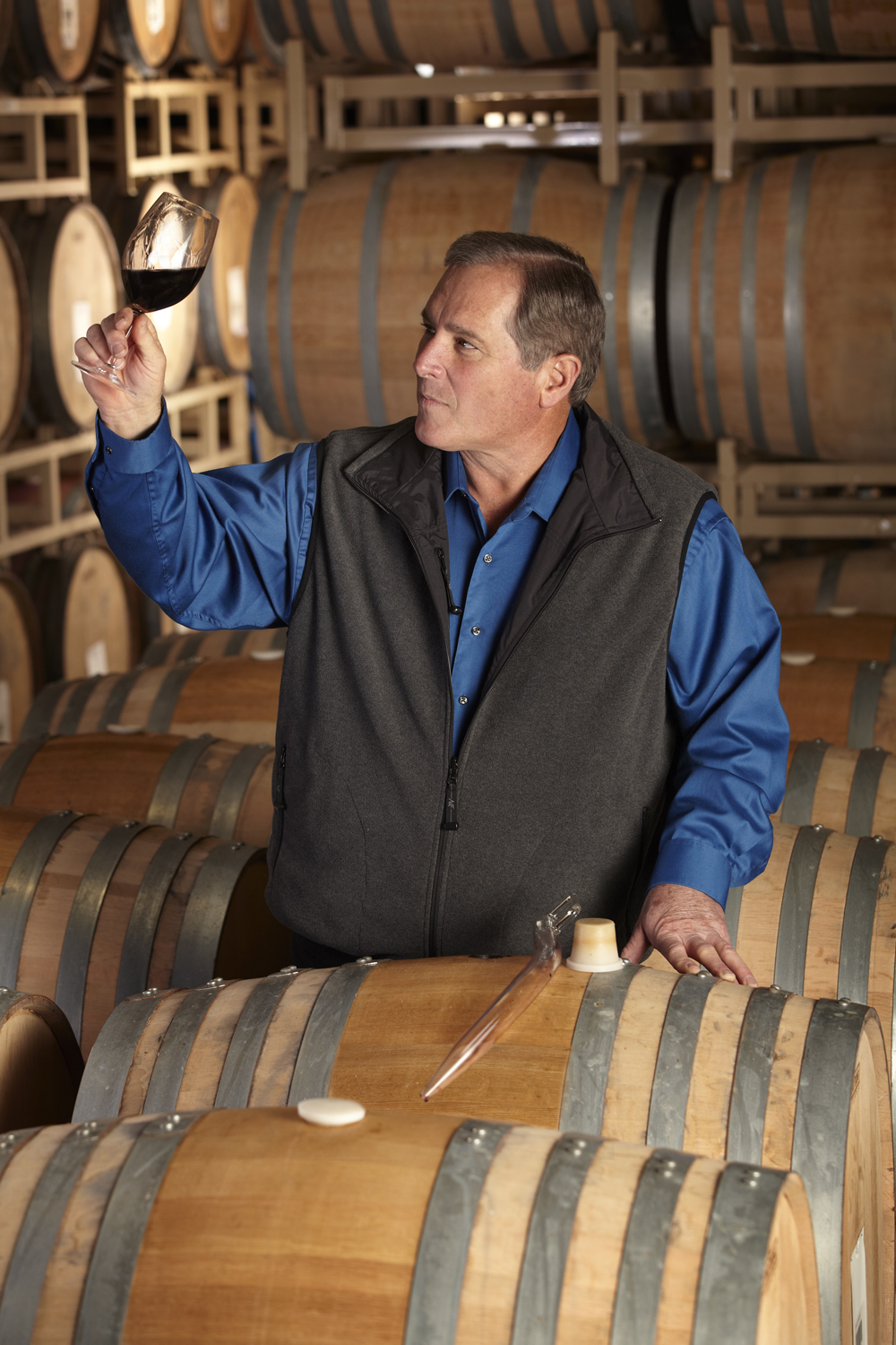 Rick Sayre Winemaker